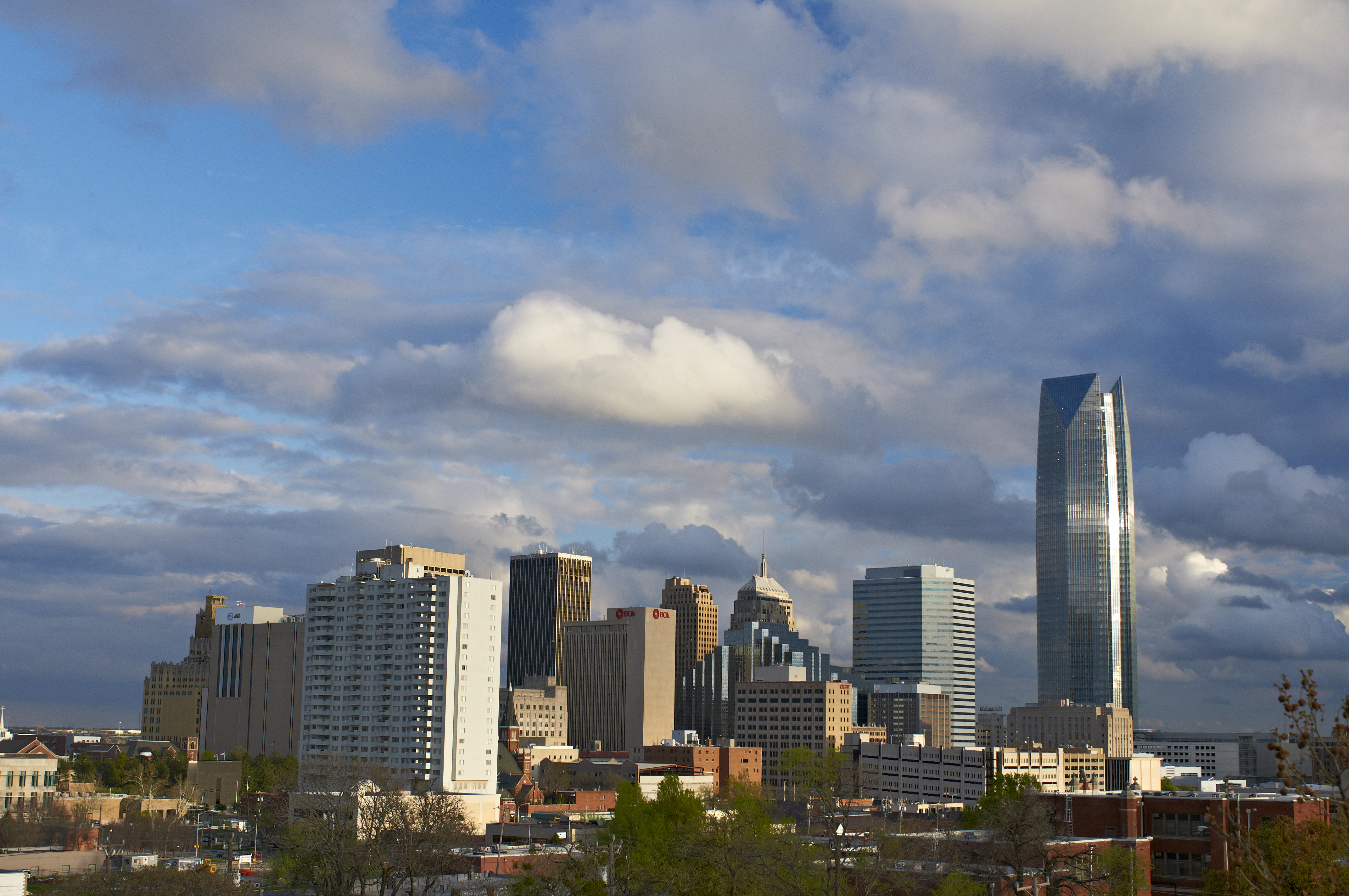 This photo of downtown Oklahoma City's skyline is current as of January 2015. It comes from the Flickr folder of photo assets for Media requests to the Greater Oklahoma City Chamber or the Oklahoma City.